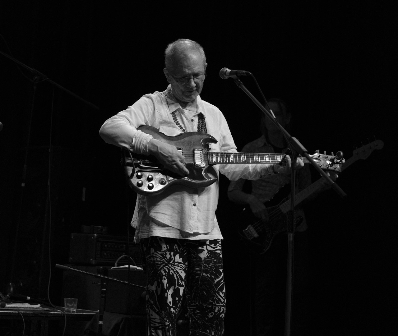 Singer-songwriter Steve Tallis performing and playing the guitar at the Fly By Night Club in Fremantle, Australia, on 30th October 2018